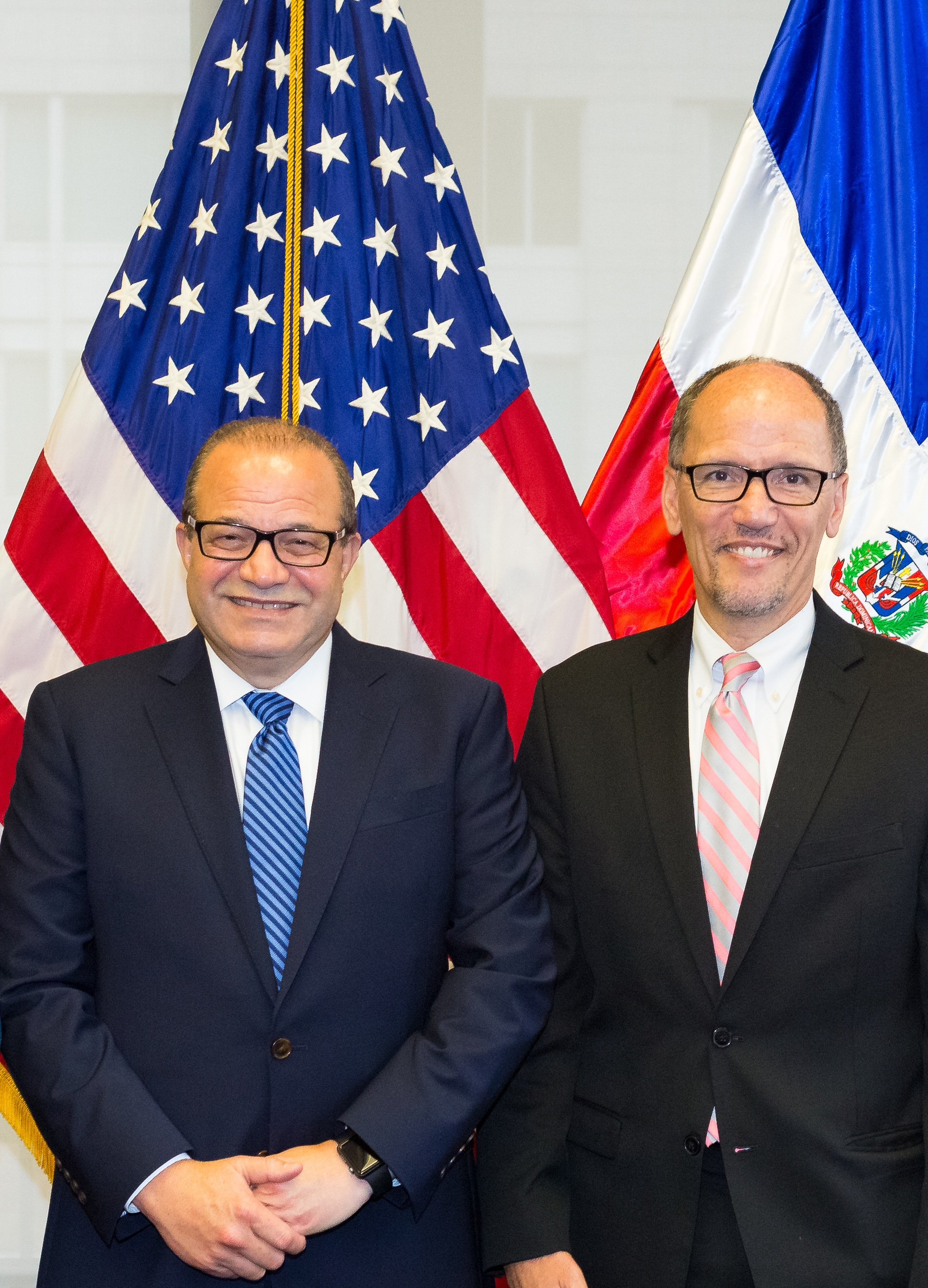 José Tomás Pérez, Dominican Republic Ambassador to the United States, and Thomas Perez, US Secretary of Labor. 28 September 2016